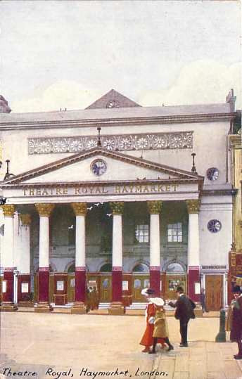 Theatre Royal, Haymarket, London. Publisher: E. F. A. London Theatre Series; No. 1004. Sent from London to Dessau (Germany), 1908 (accordig to postmark).